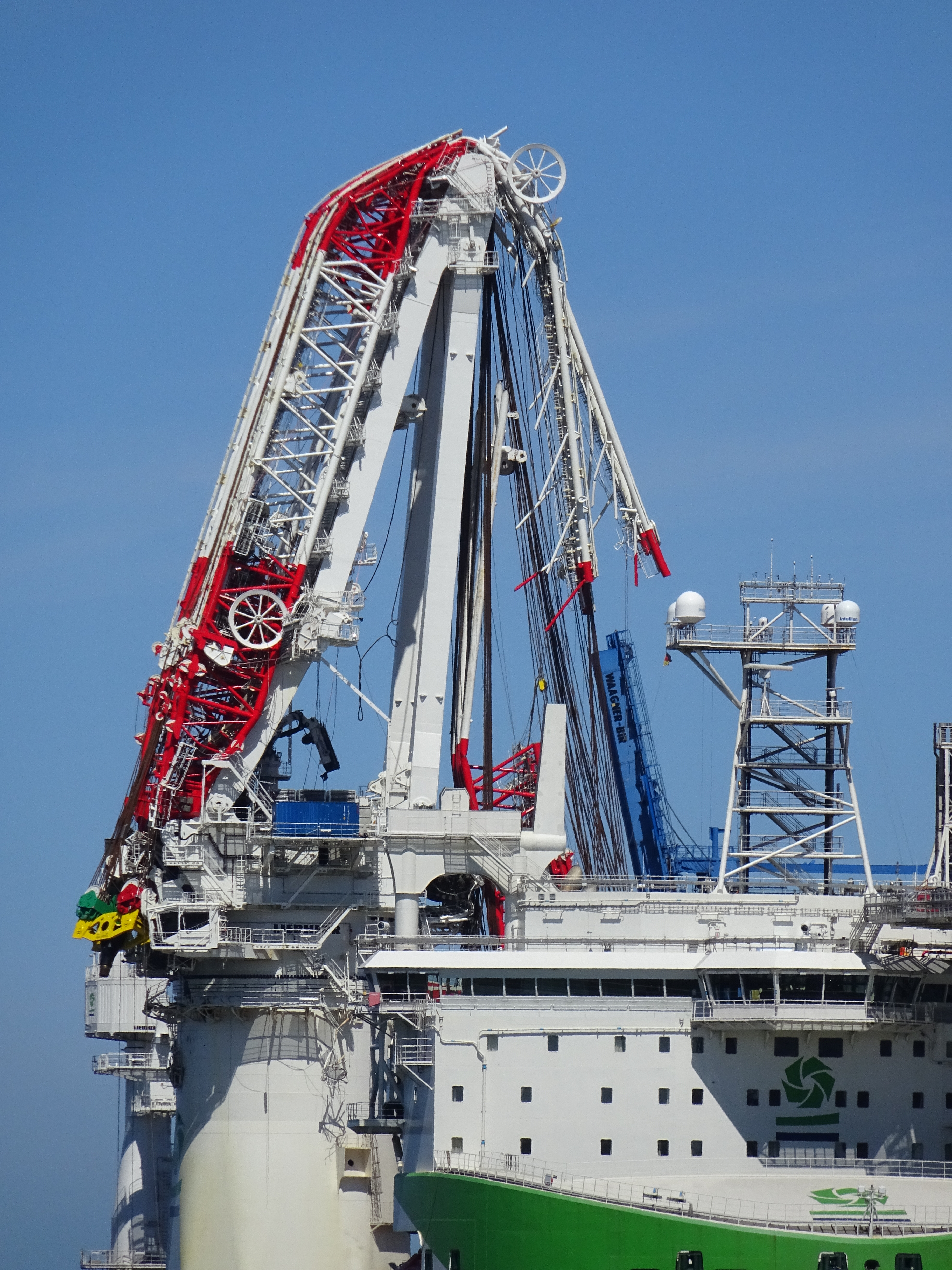 collapsed crane HLC 295000 on board the Orion in the port of Rostock